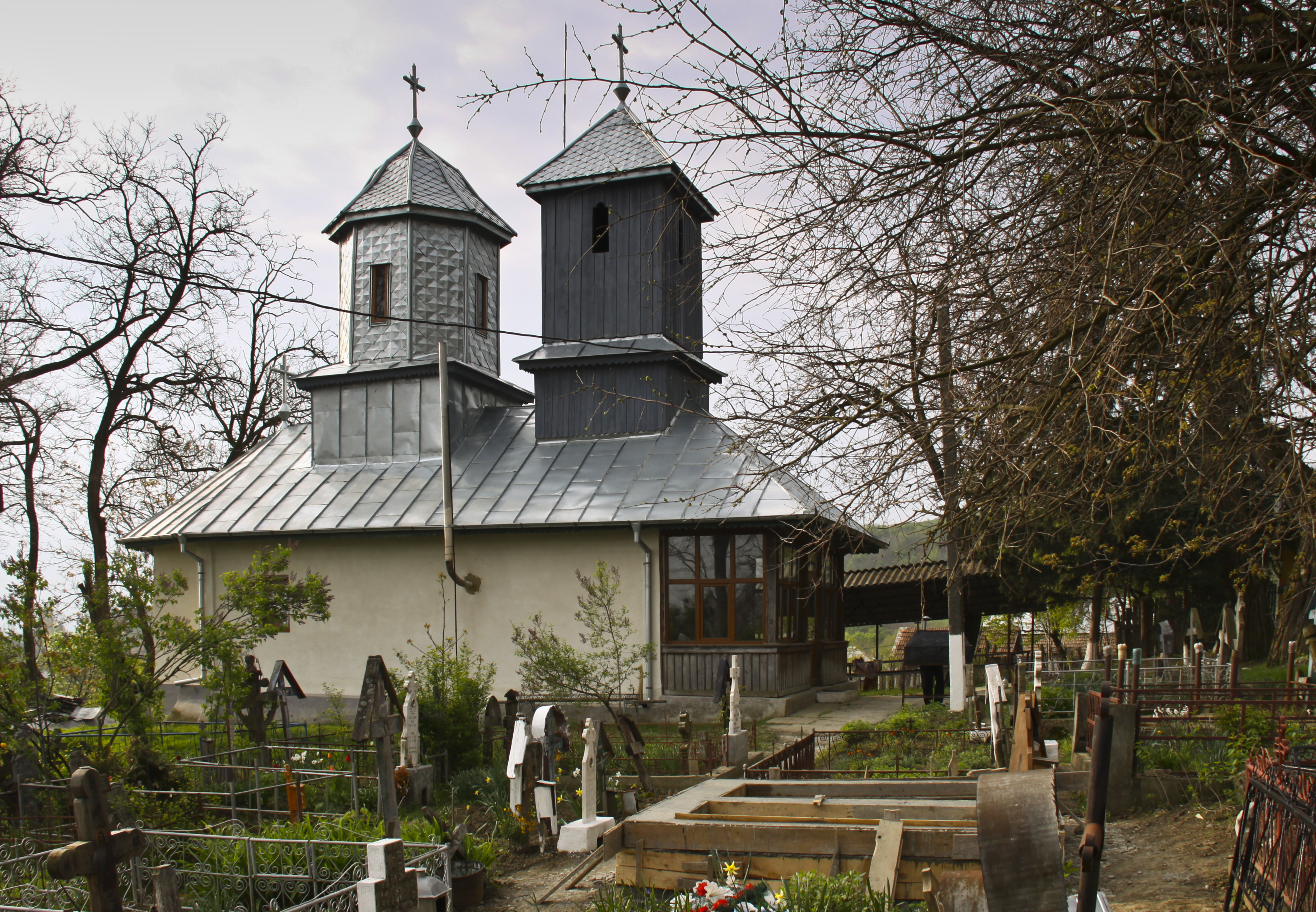 Boroşeşti, Vâlcea county, Romania: the wooden church.